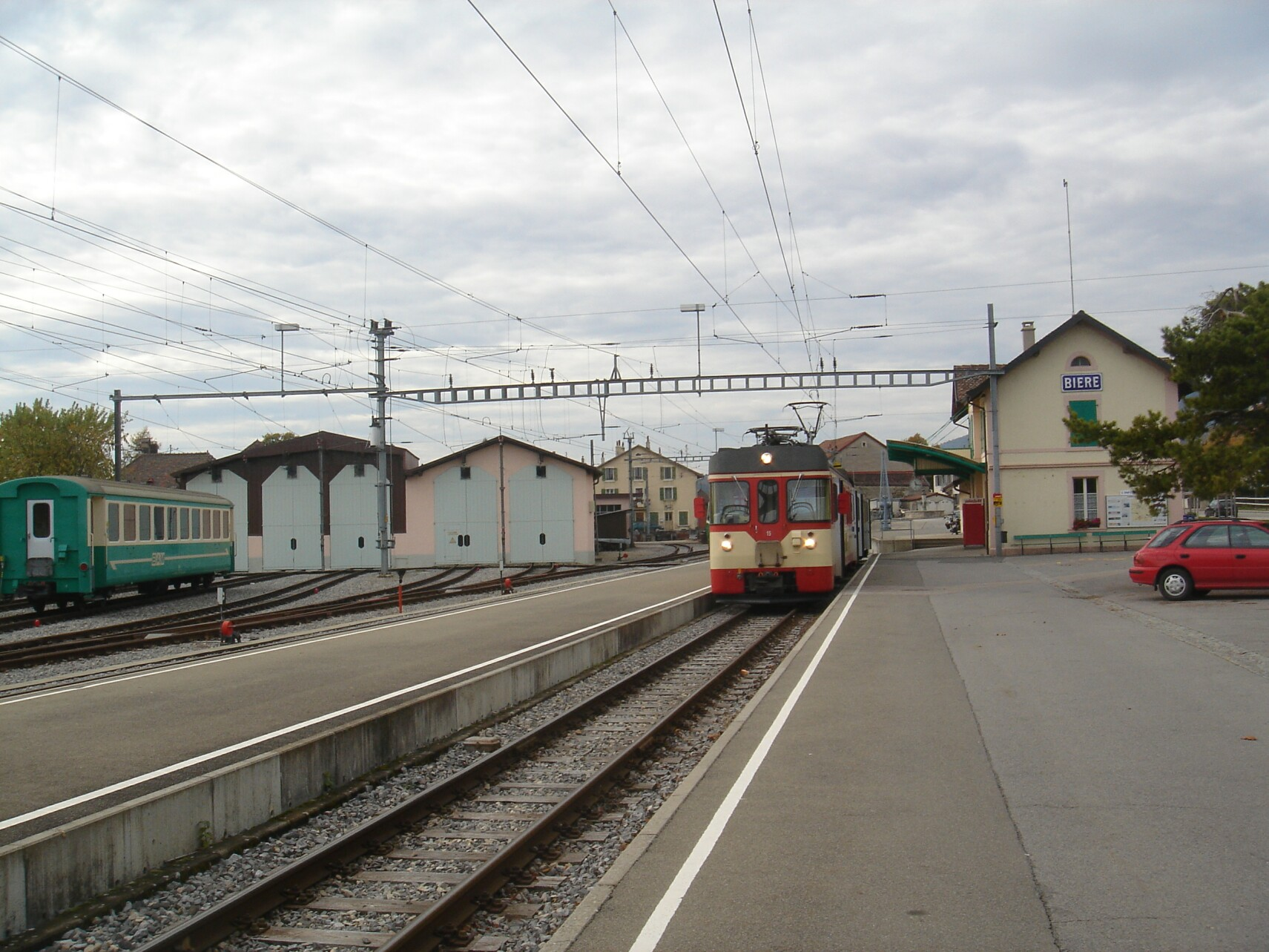 MBC terminus Bière (Switzerland) with train to Morges waiting for departure